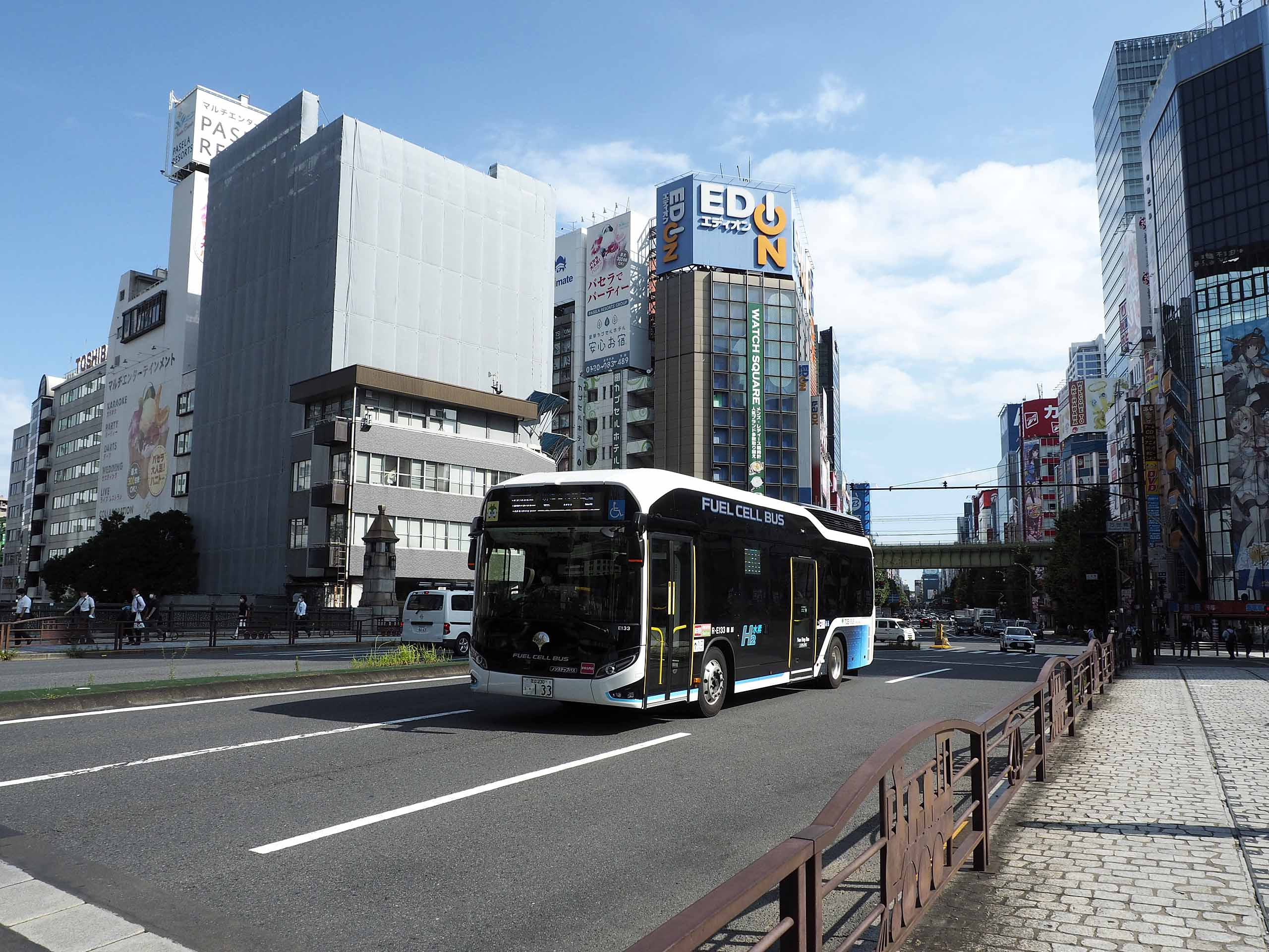 Toyota SORA, fuel cell bus in Toei Bus Aki 26 route. License plate: TKA230 U0133 Place: Mansei bridge, Chiyoda Ward, Tokyo Japan